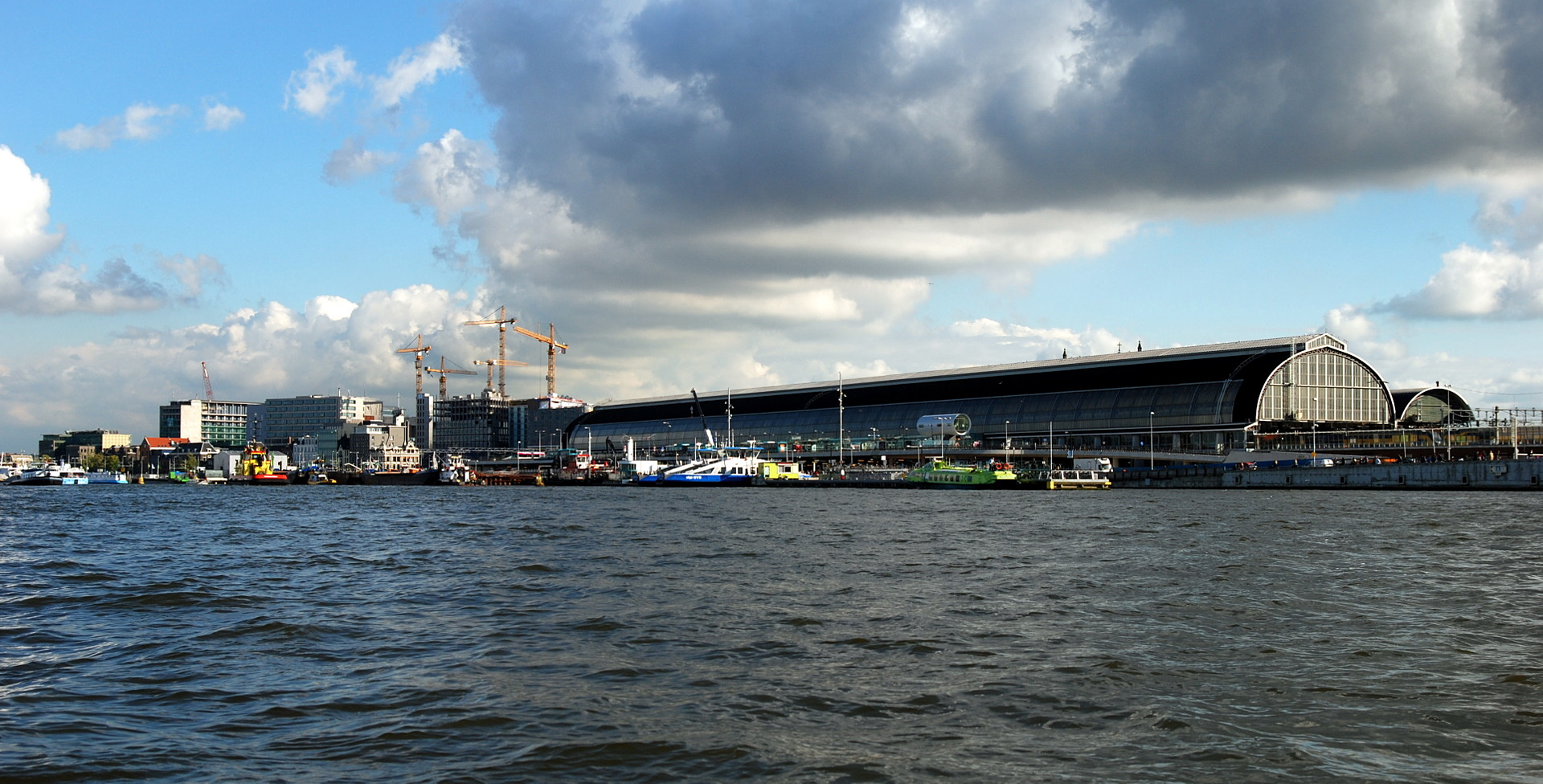 Amsterdam Central Station seen from the water.